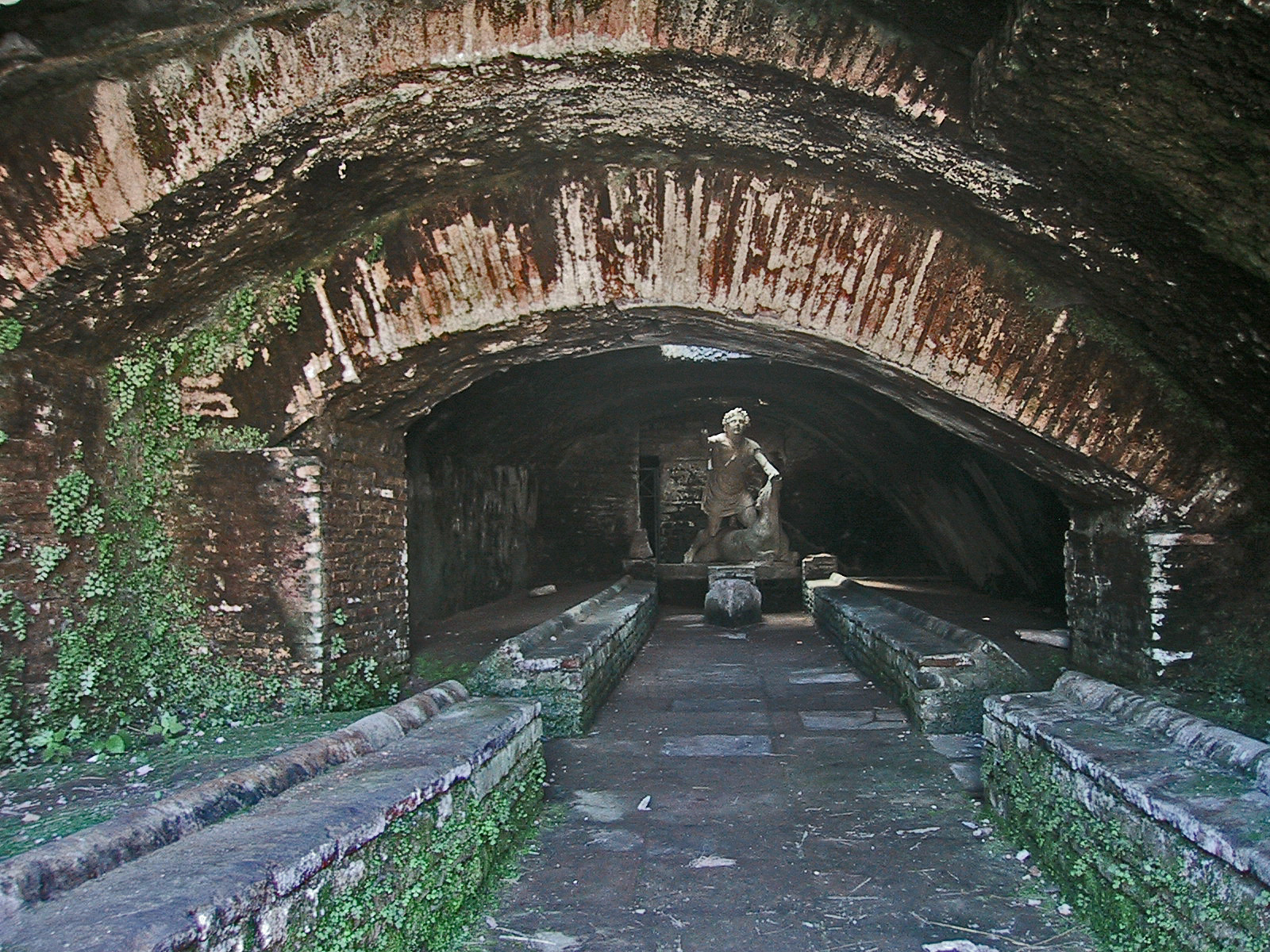 Mithraeum of the Baths of Mithras (Mitreo delle Terme del Mitra) viewed from the north (regio I, insula XVII). Ostia Antica, Italy.